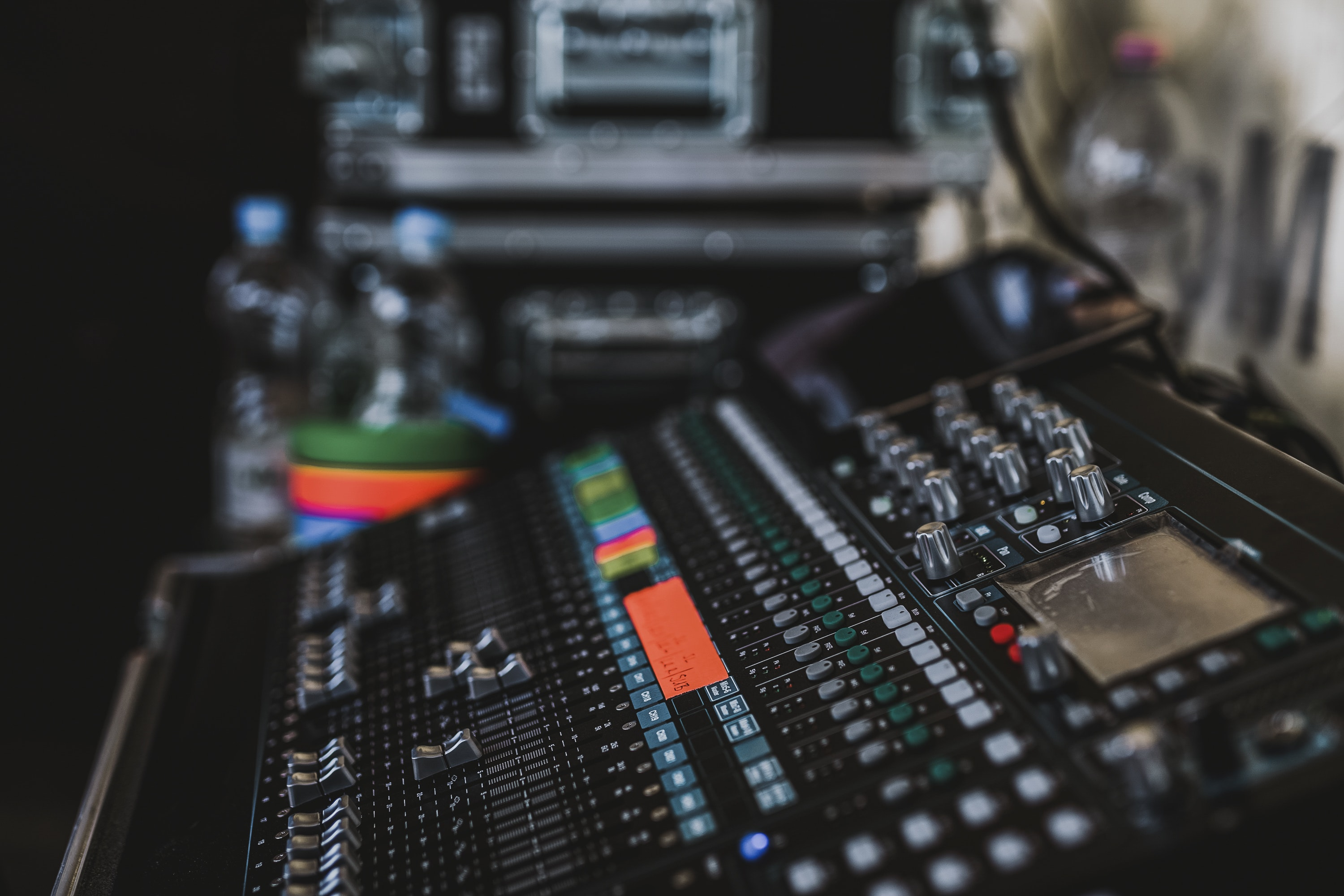 Allen & Heath Qu-24 Chrome Edition (2017-09-30 by David Bartus @pexels 690779) Pexels Tags: audio audio mixer bass blur business computer desk device display electronics equipment instrument keyboard music music player music studio recording sound stage studio technology.